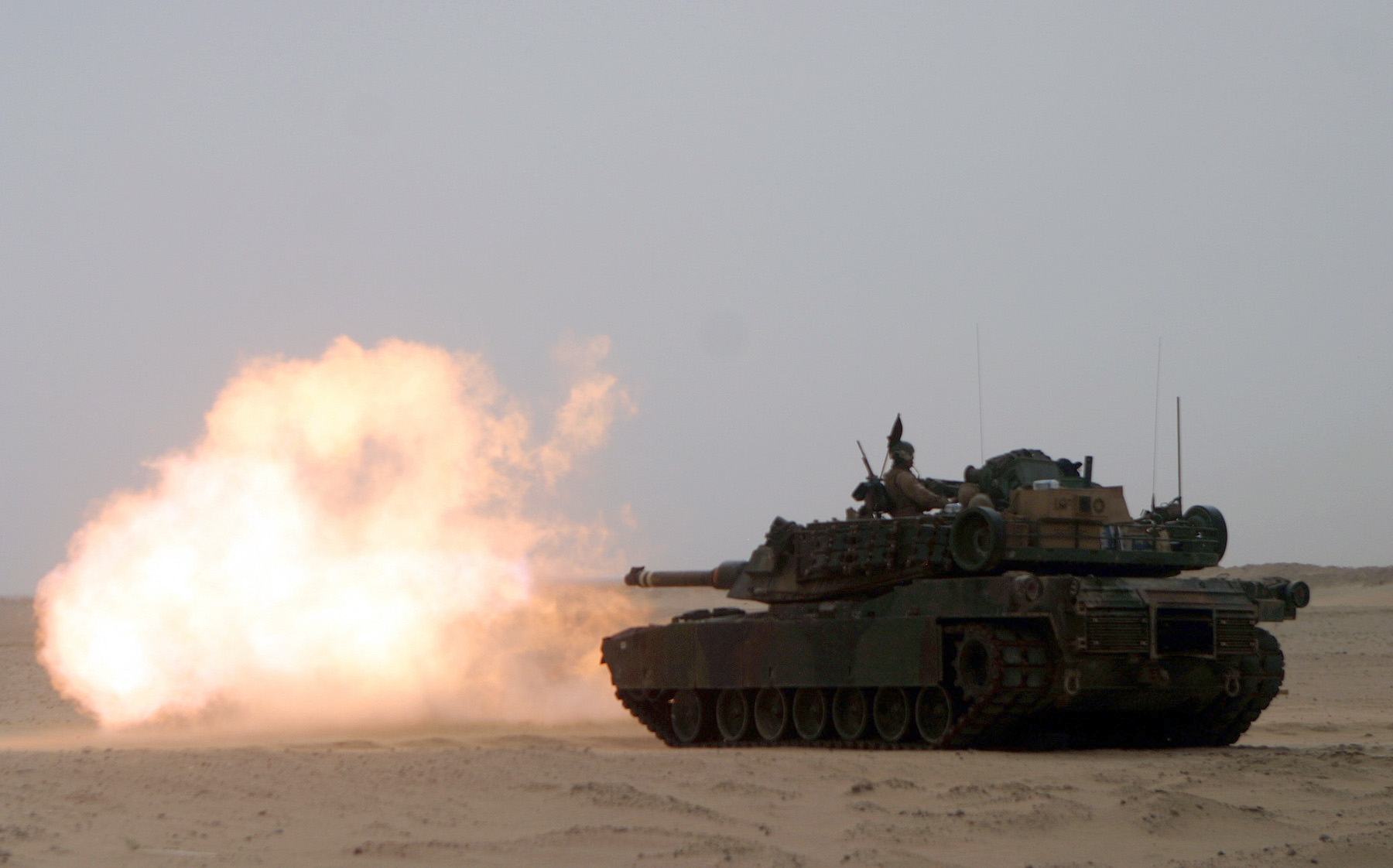 CAMP UDAIRI, Kuwait (April 27, 2007) - An M-1A1 Abrams Main Battle Tank from Tank Platoon, Battalion Landing Team 2/2, 26th Marine Expeditionary Unit, spits fire as it sends a 120mm shell booming down range during live-fire training at Udairi Range. U.S. Marine Corps photo by Cpl. Jeremy Ross (RELEASED)